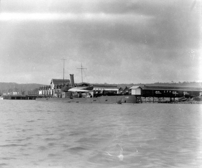 Submarine K XIII in the harbour